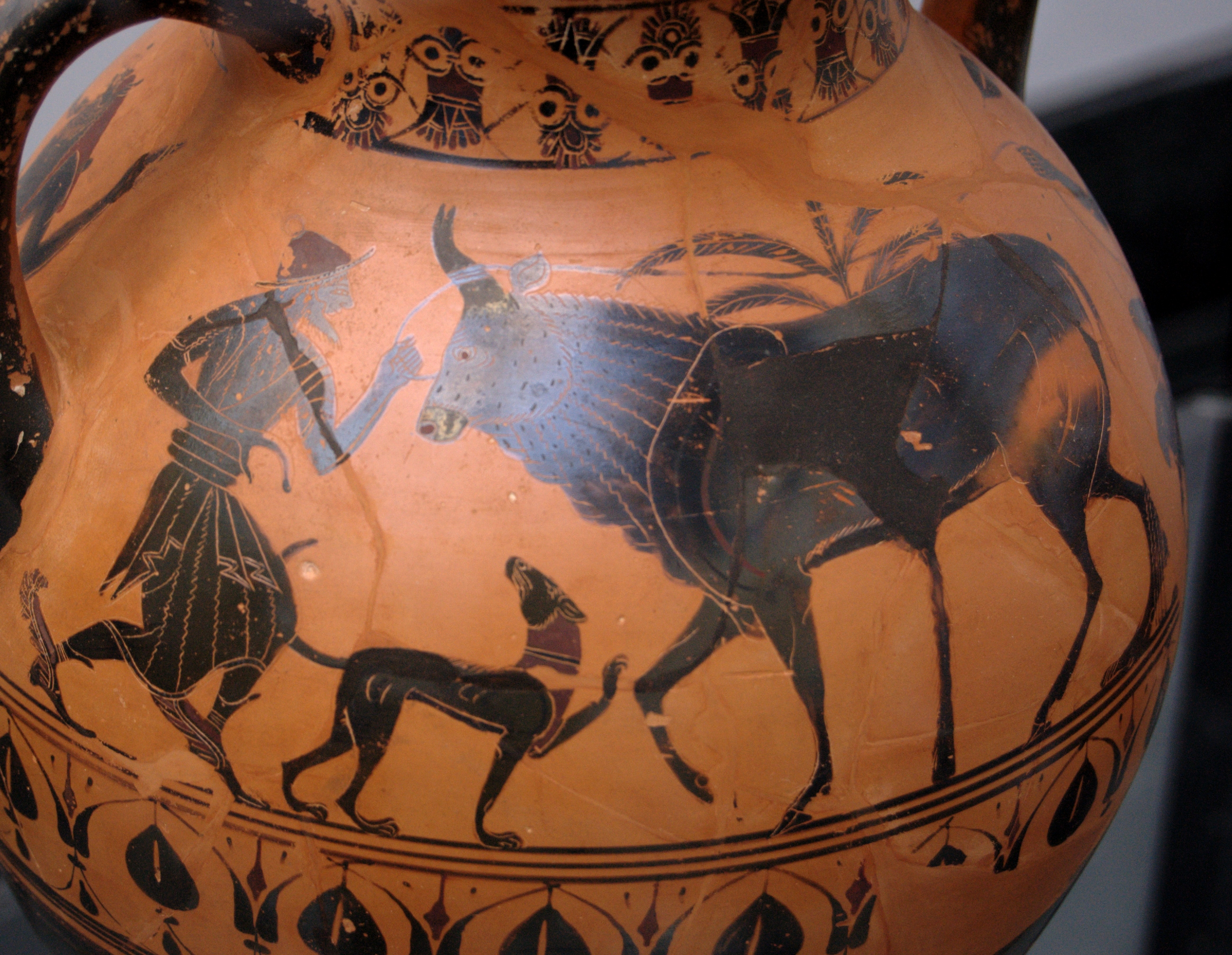 Hermes and Io (as cow). Side A from a Greek black-figure amphora, 540–530 BC. Found in Italy.